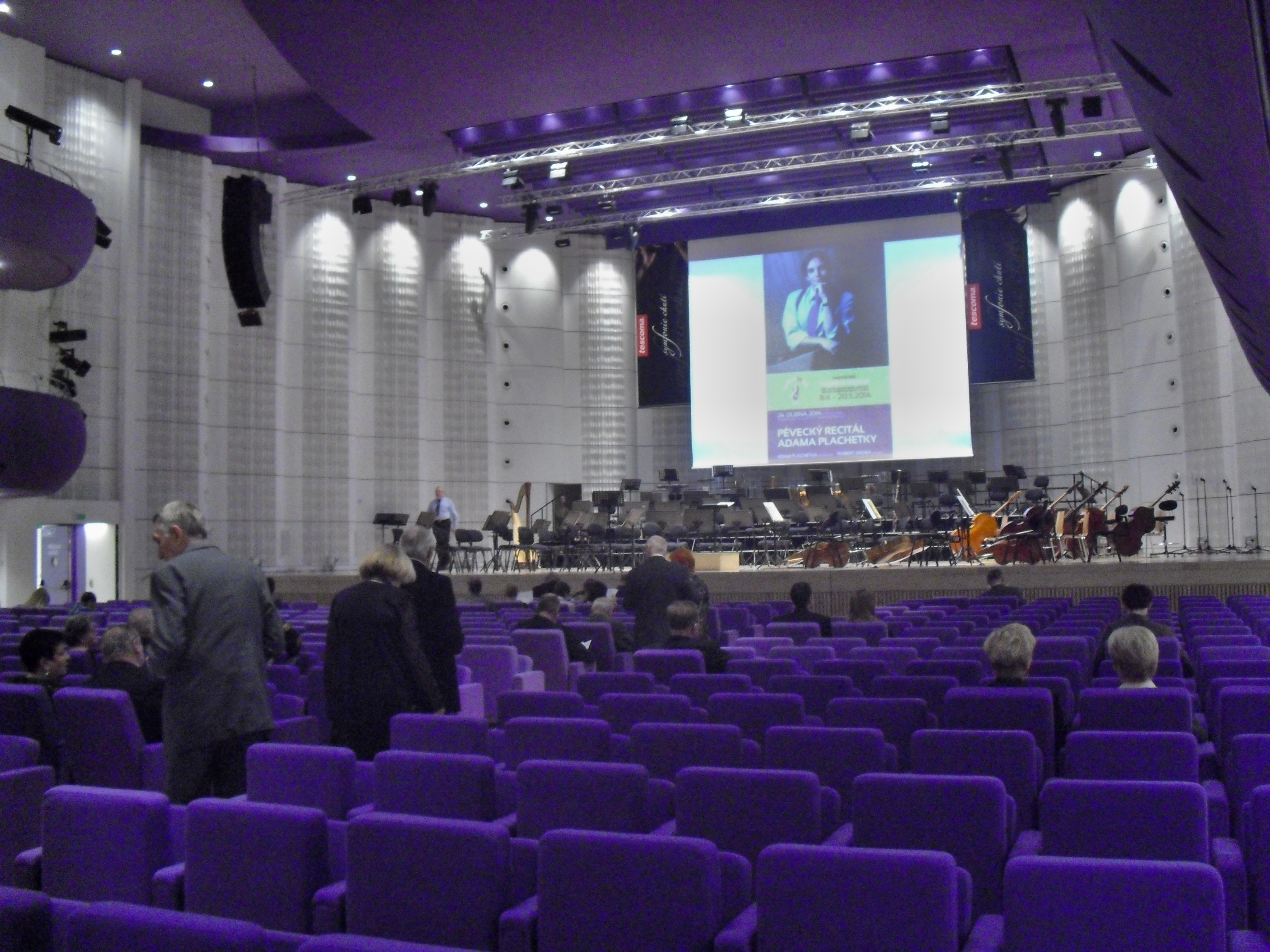 Zlín, Czech Republic. Congress Center.